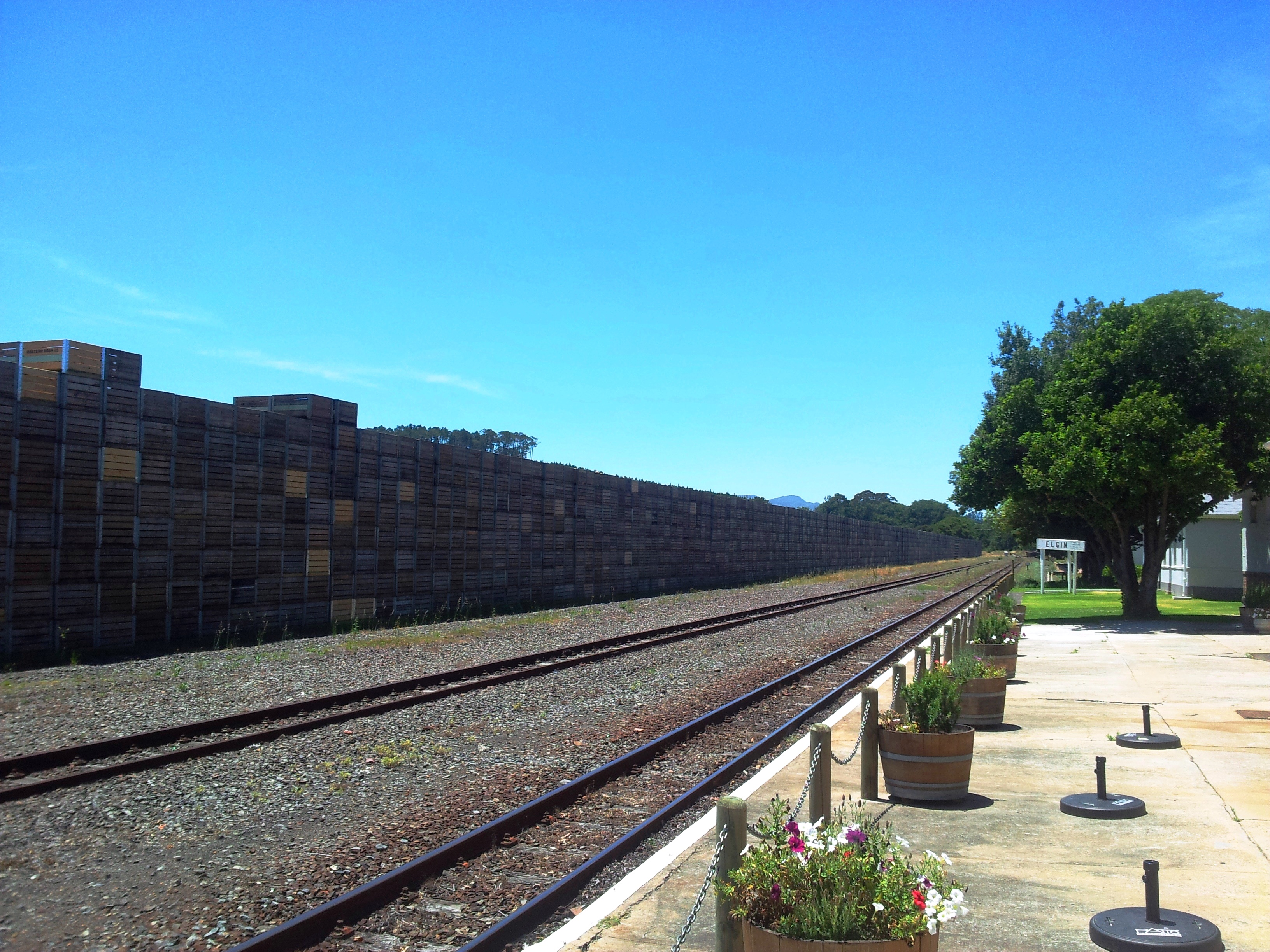 Elgin Railway station Molteno brothers farms Winters Drift